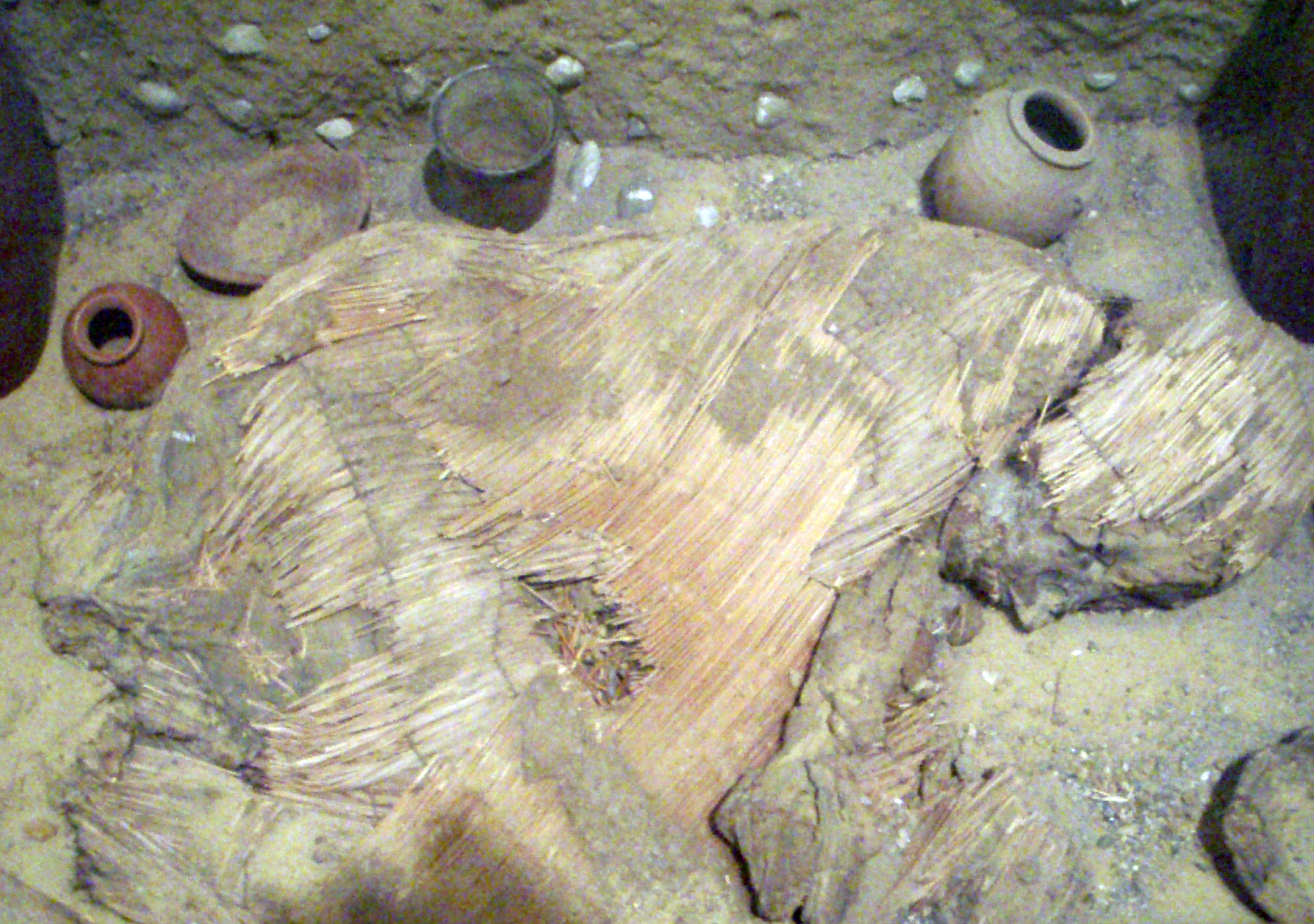 Recreation of a predynastic burial, from the Ancient Egyptian wing of the Royal Ontario Museum.